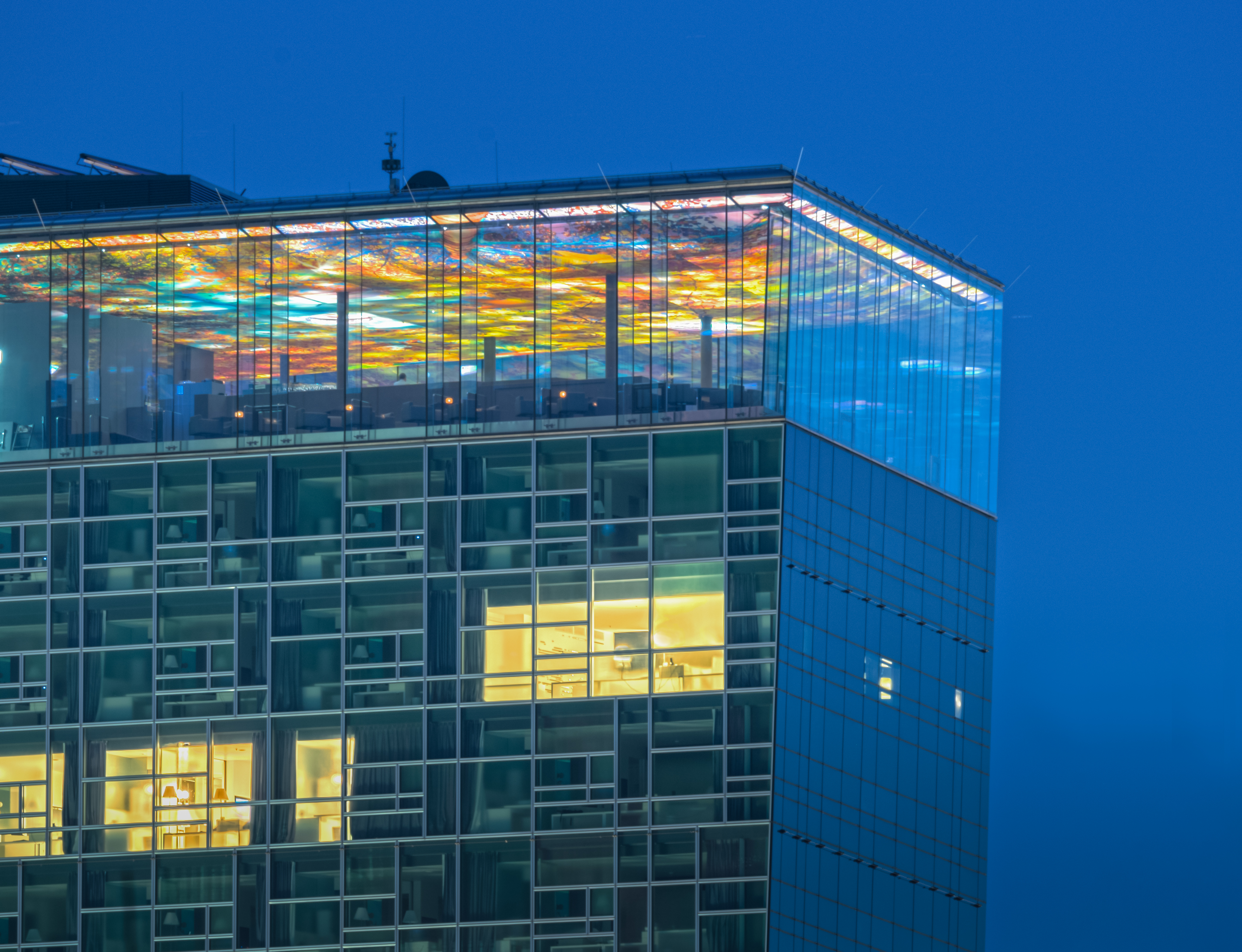 Uniqa-Tower Vienna, Jean Novel, Restaurant with Lightroof from Pipilotti Rist, Le Loft Bar & Lounge Object location48° 12′ 24.04″ N, 16° 21′ 47.6″ E The making of this work was supported by Wikimedia Austria. For other files made with the support of Wikimedia Austria, please see the category Supported by Wikimedia Österreich.